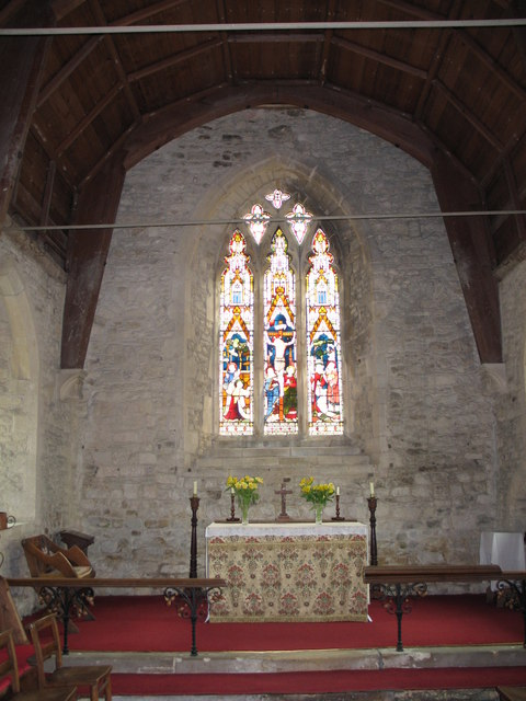 Church of England parish church of St. Mary Magdalene, Shabbington, Buckinghamshire: interior of chancel, looking toward the altar and east window